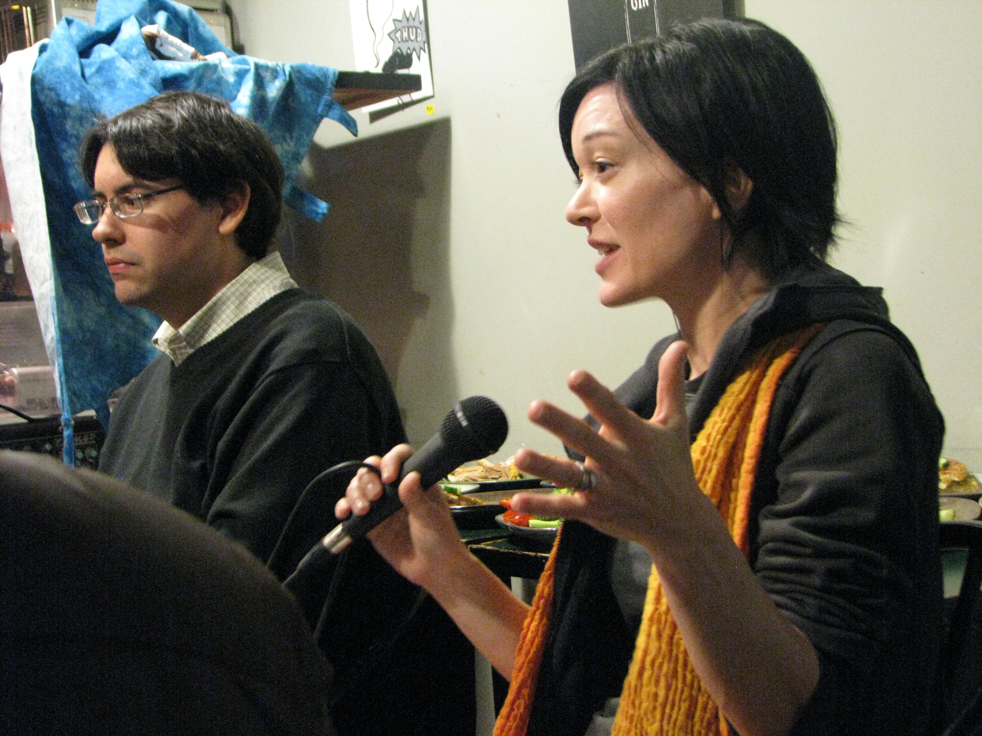 Simon Pulsifer was honored for being a highly prolific Wikipedia editor, and shared the spotlight with Ms. Gardner.